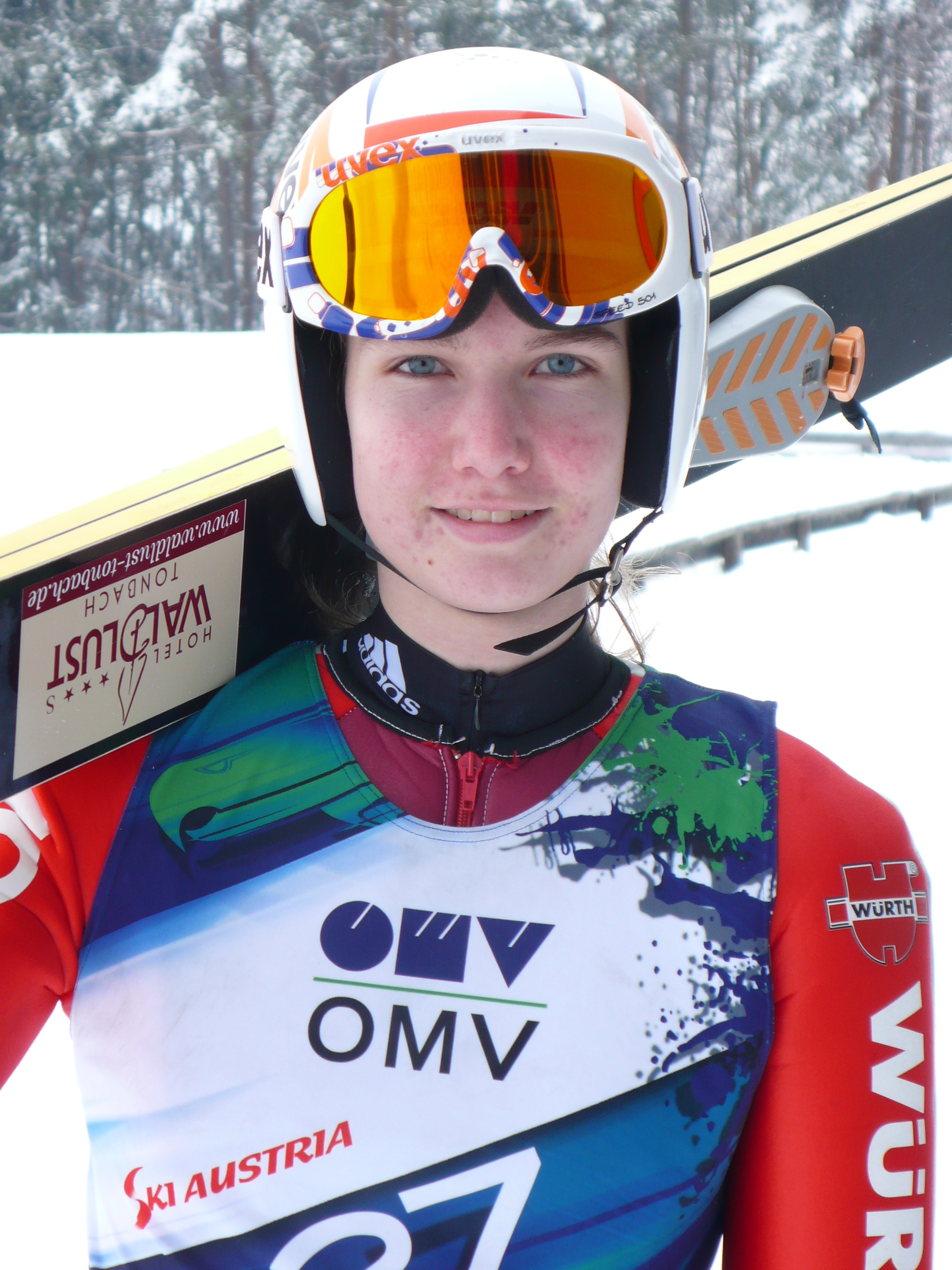 Svenja Würth, at the Ski jumping Continental Cup in Villach on the 2010-02-12.